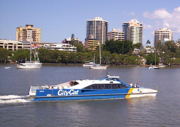 Original-style Brisbane CityCat catamaran passing Eagle Street Pier